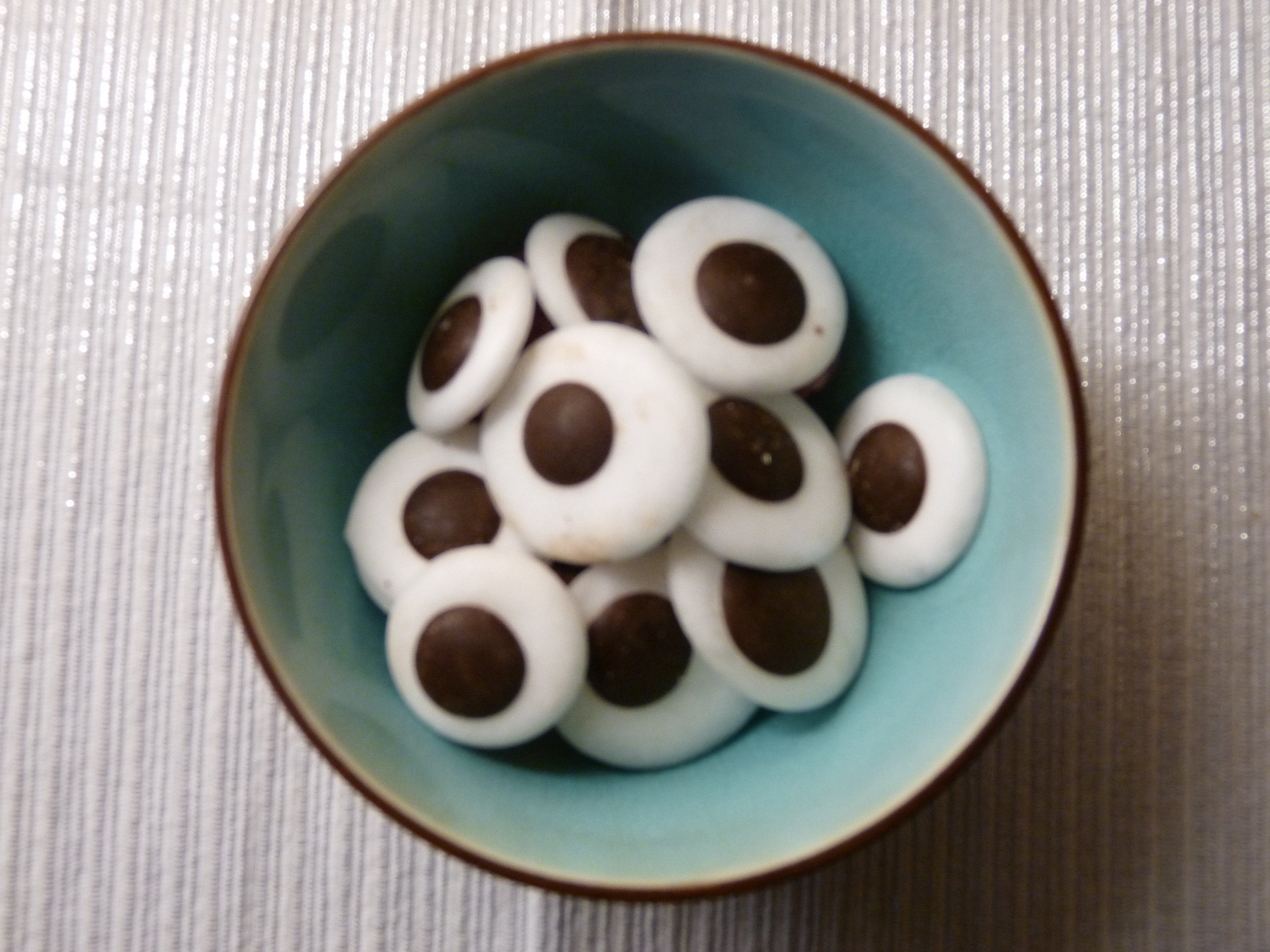 Mintkyssar, Swedish candy